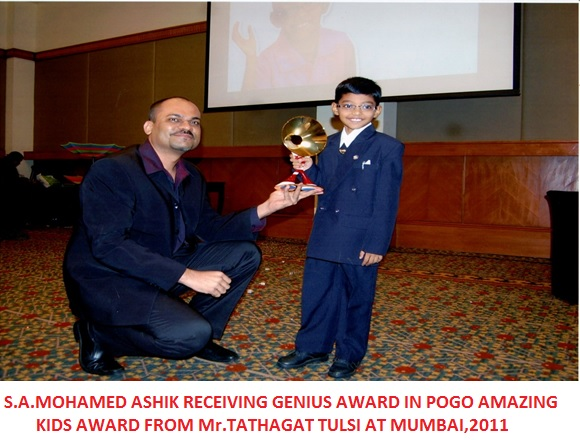 Mohamed Ashik Recieving POGO Amazing Kids Genius Award 2011 at Mumbai